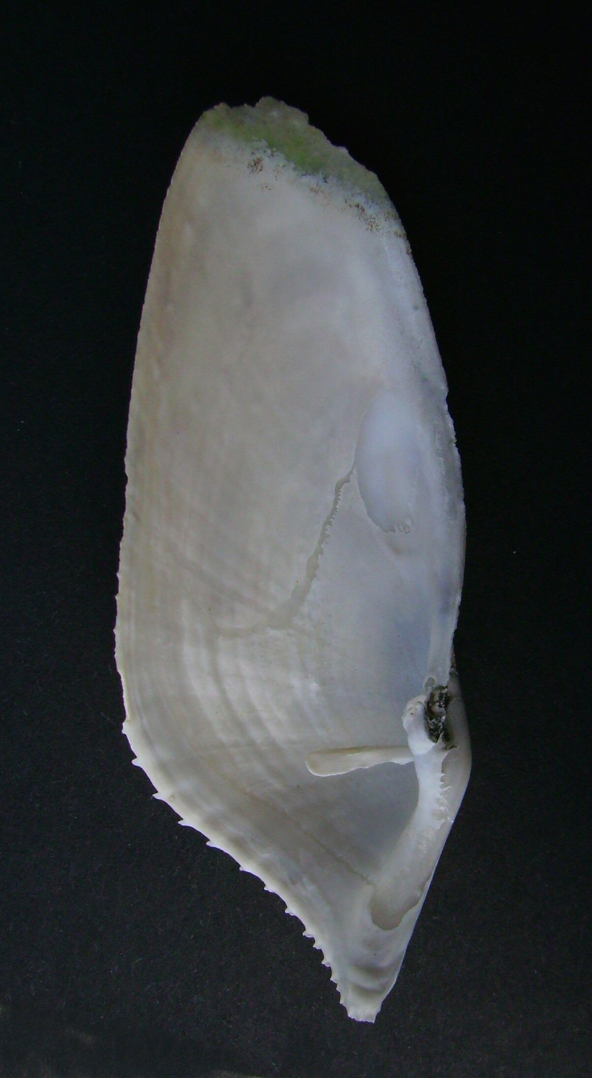 Barnea similis (underside) from near Auckland, New Zealand. This work has been released into the public domain by its author, Graham Bould. This applies worldwide. In some countries this may not be legally possible; if so: Graham Bould grants anyone the right to use this work for any purpose, without any conditions, unless such conditions are required by law.